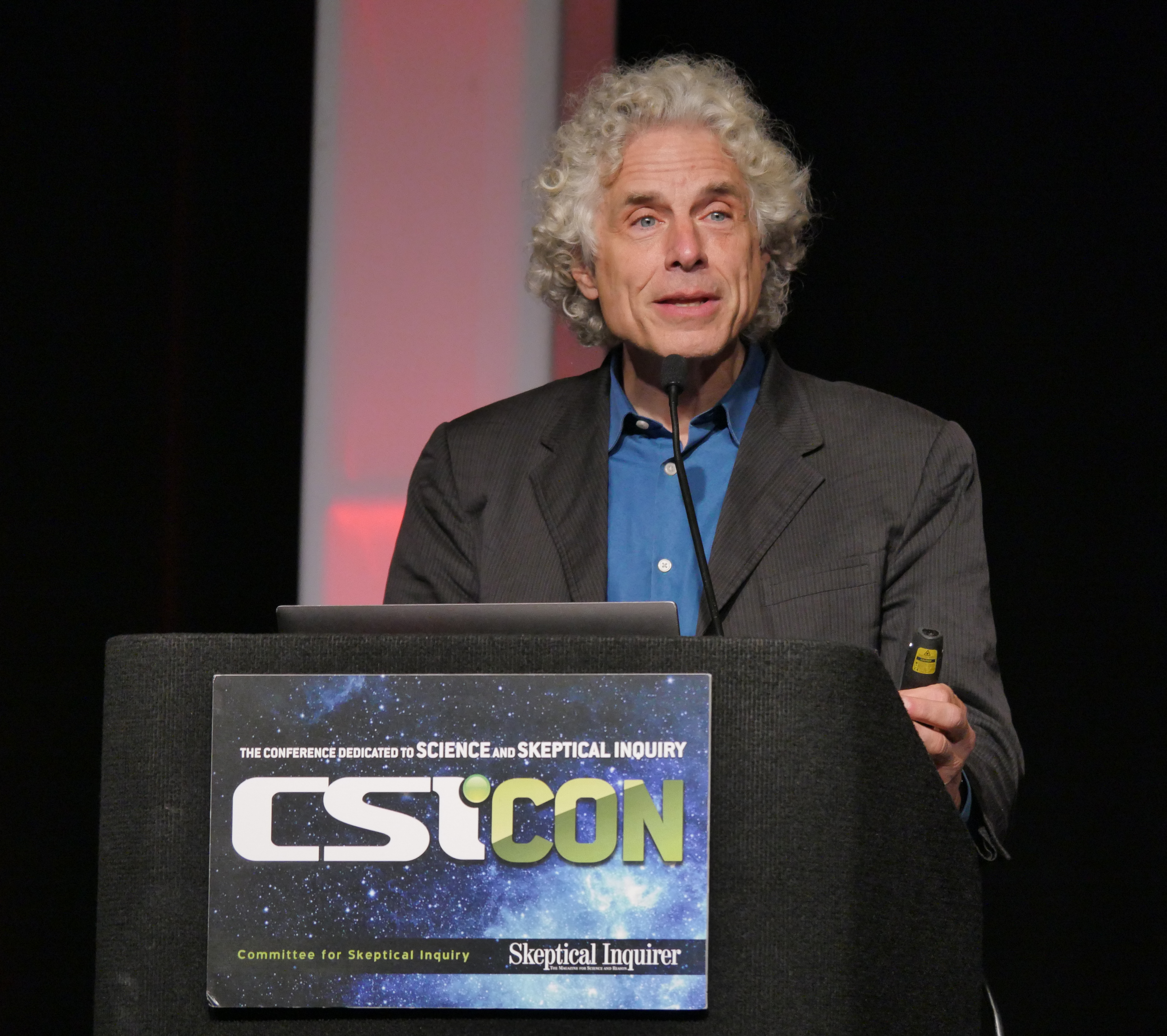 Steven Pinker CSICon 2018 Enlightenment Now- The Case for Reason, Science, Humanism, and Progress